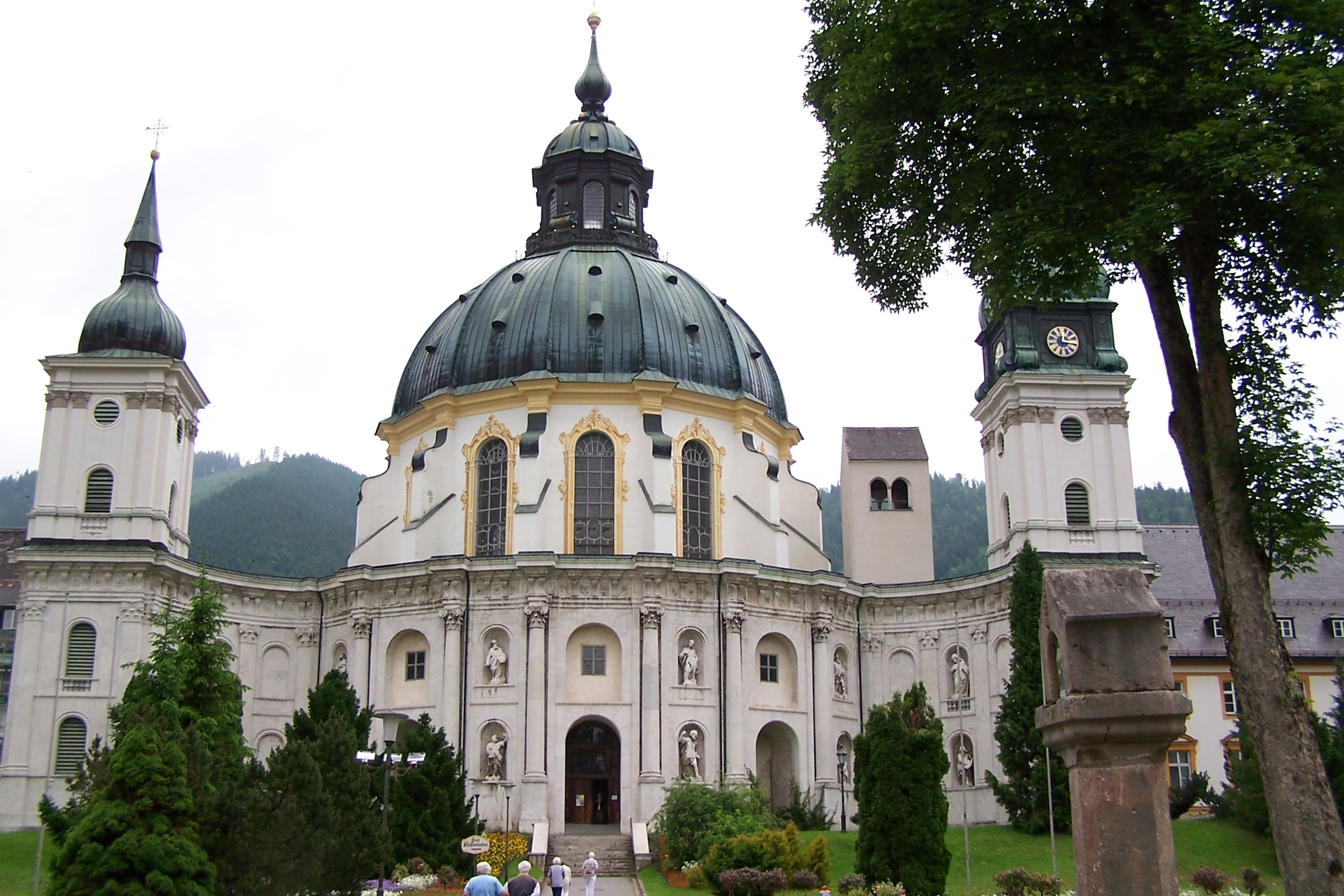 Ettal-front